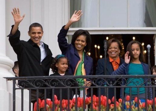 President Barack Obama and First Lady Michelle Obama are joined by their daughters, Sasha and Malia, and Michelle Obama's mother, Marian Robinson, Monday, April 13, 2009, as they wave from the South Portico of the White House to guests attending the White House Easter Egg Roll (cropped version)